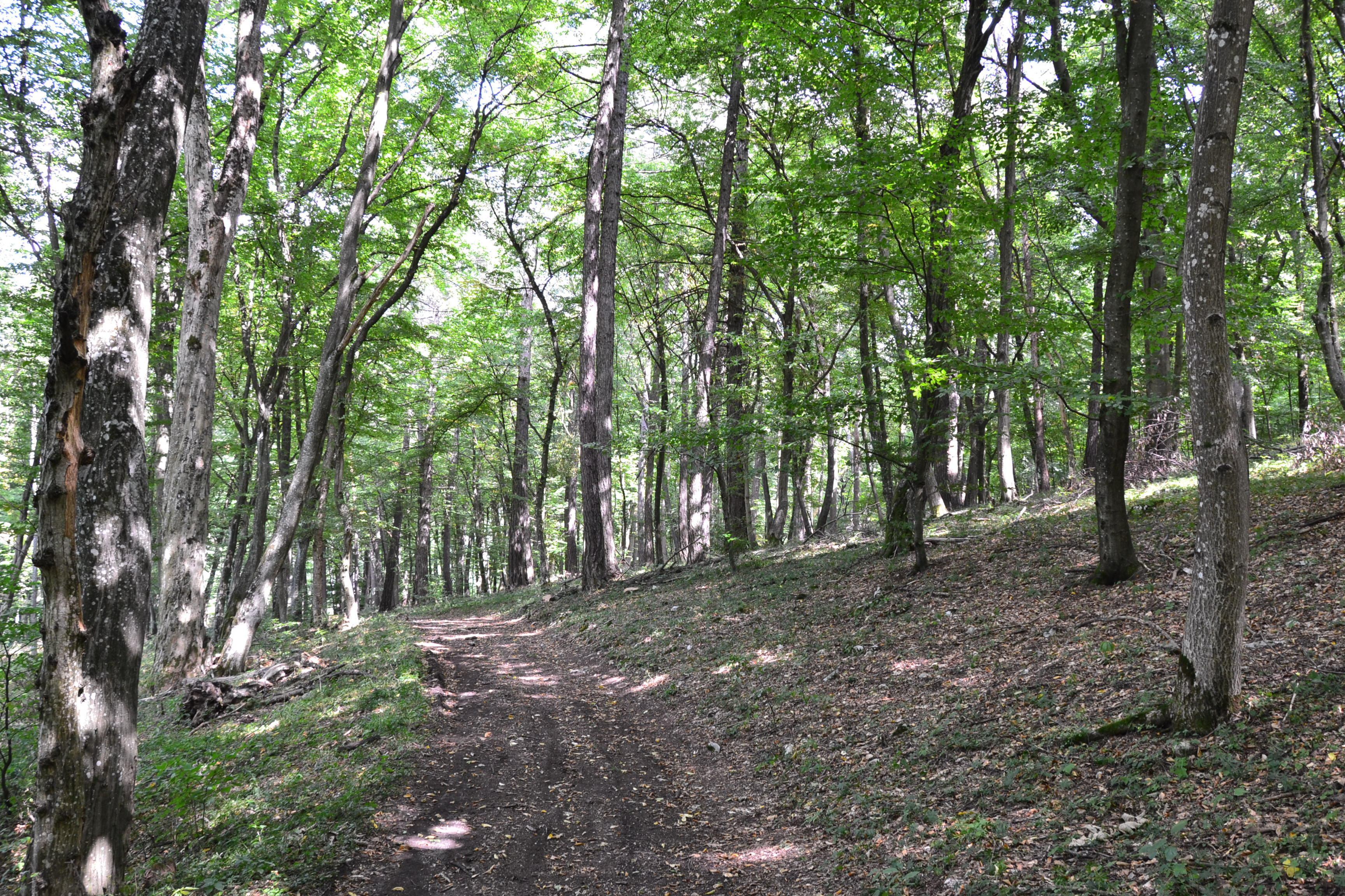 Silická planina. North part of plateau is now covered by forest